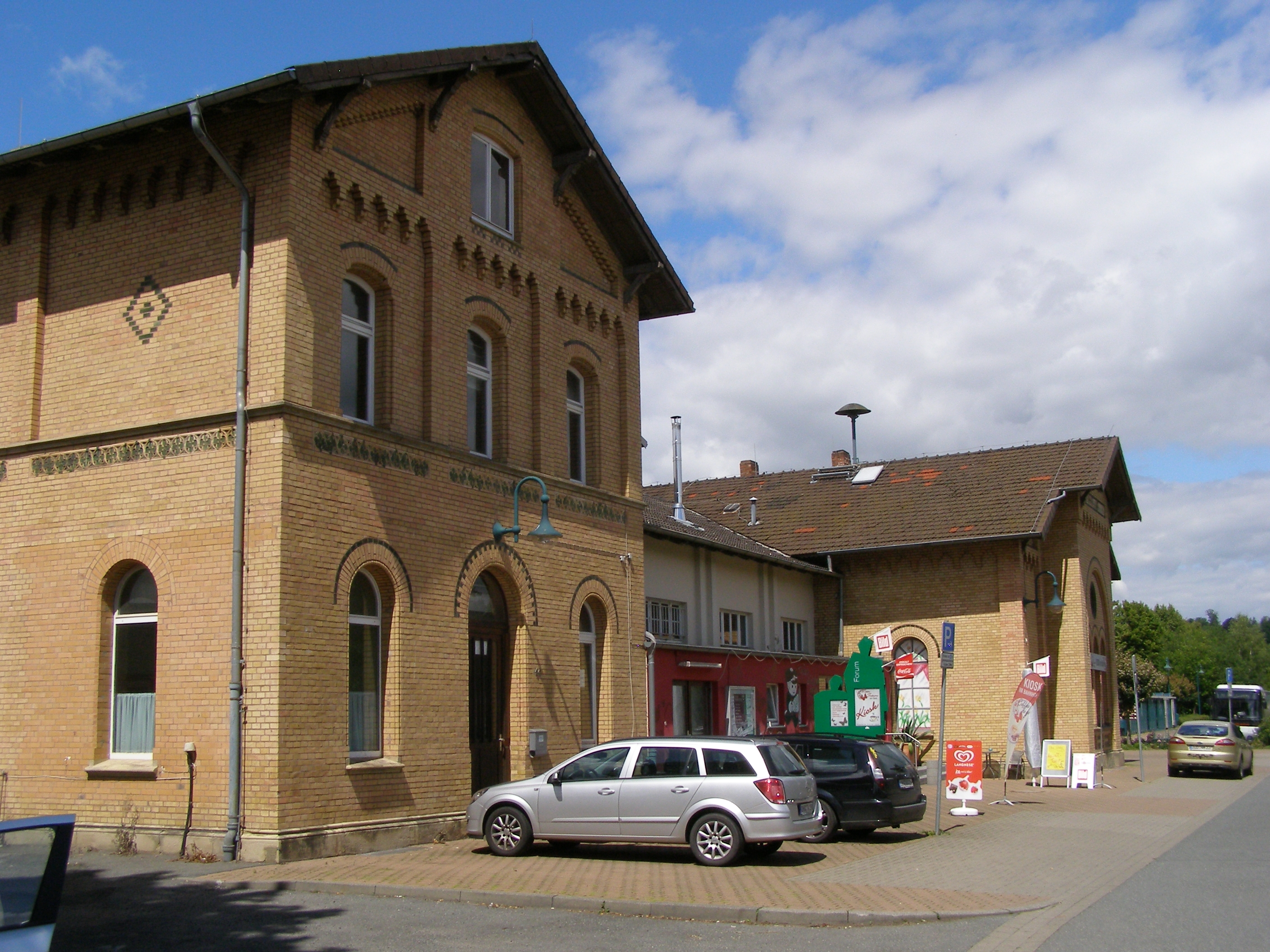 Herzberg am Harz - railway station building